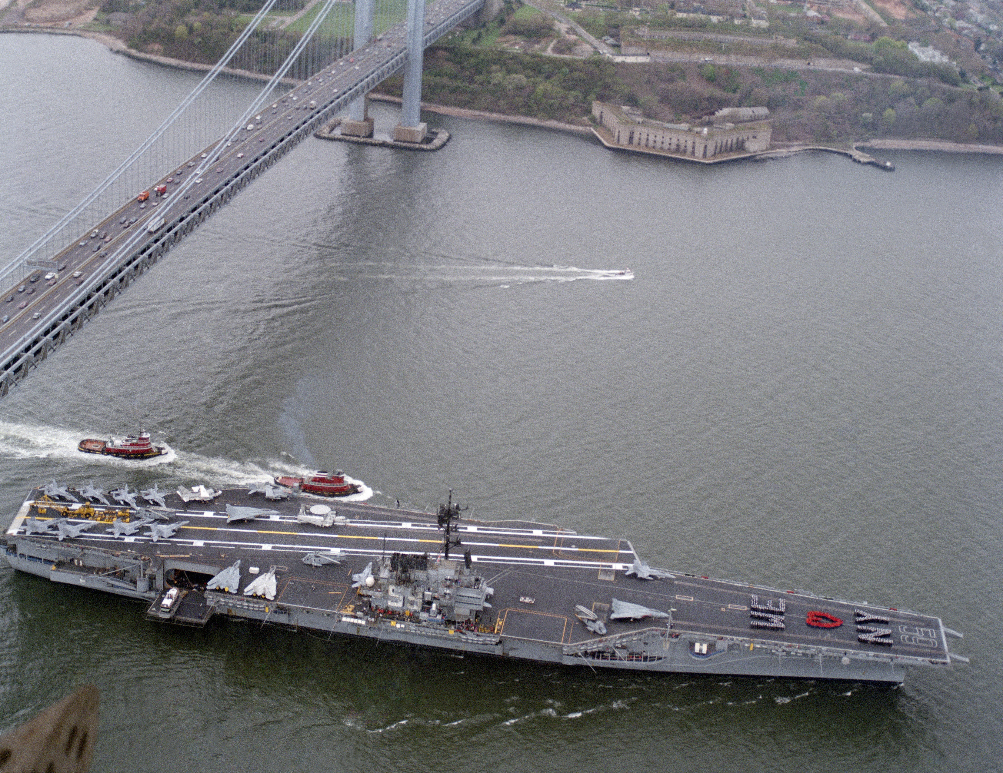 The aircraft carrier USS FORRESTAL (CV 59), escorted by a pair of tug boats, passes under the Verrazano Narrows Bridge as it approaches New York City. The FORRESTAL and its battle group as visiting the city for Fleet Week'89. Location: UPPER NEW YORK BAY, NEW YORK (NY) UNITED STATES OF AMERICA (USA)